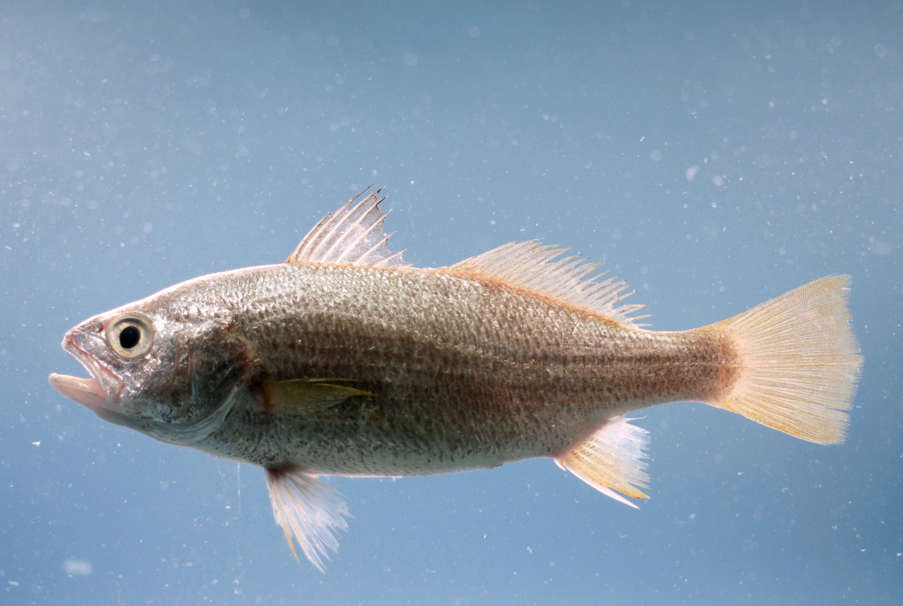 Silver perch ( Bairdiella chrysoura ). Gulf of Mexico.